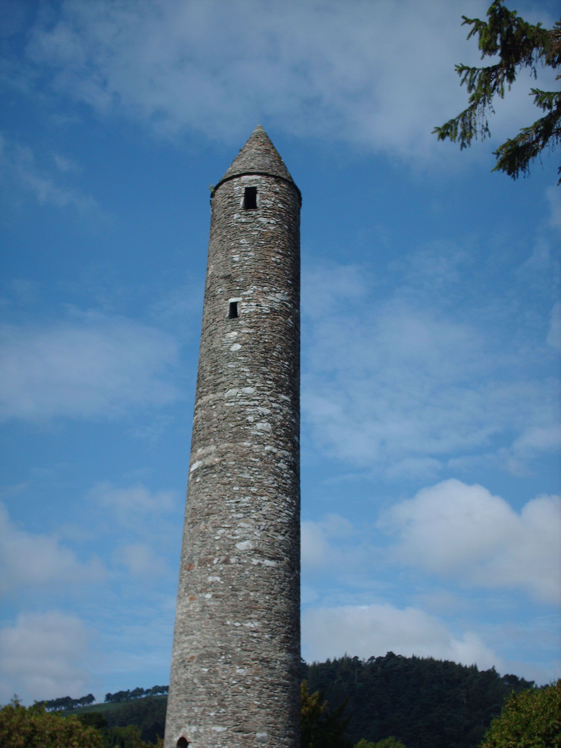 Round tower, Glendalough, Ireland check usage